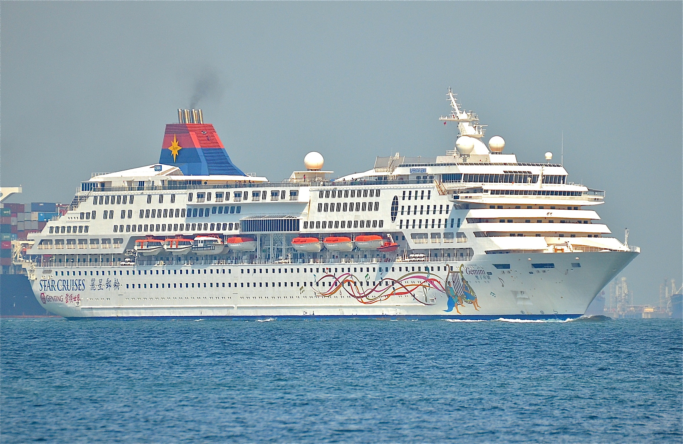 Star Cruise Gemini